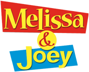 Logo of the sitcom Melissa & Joey